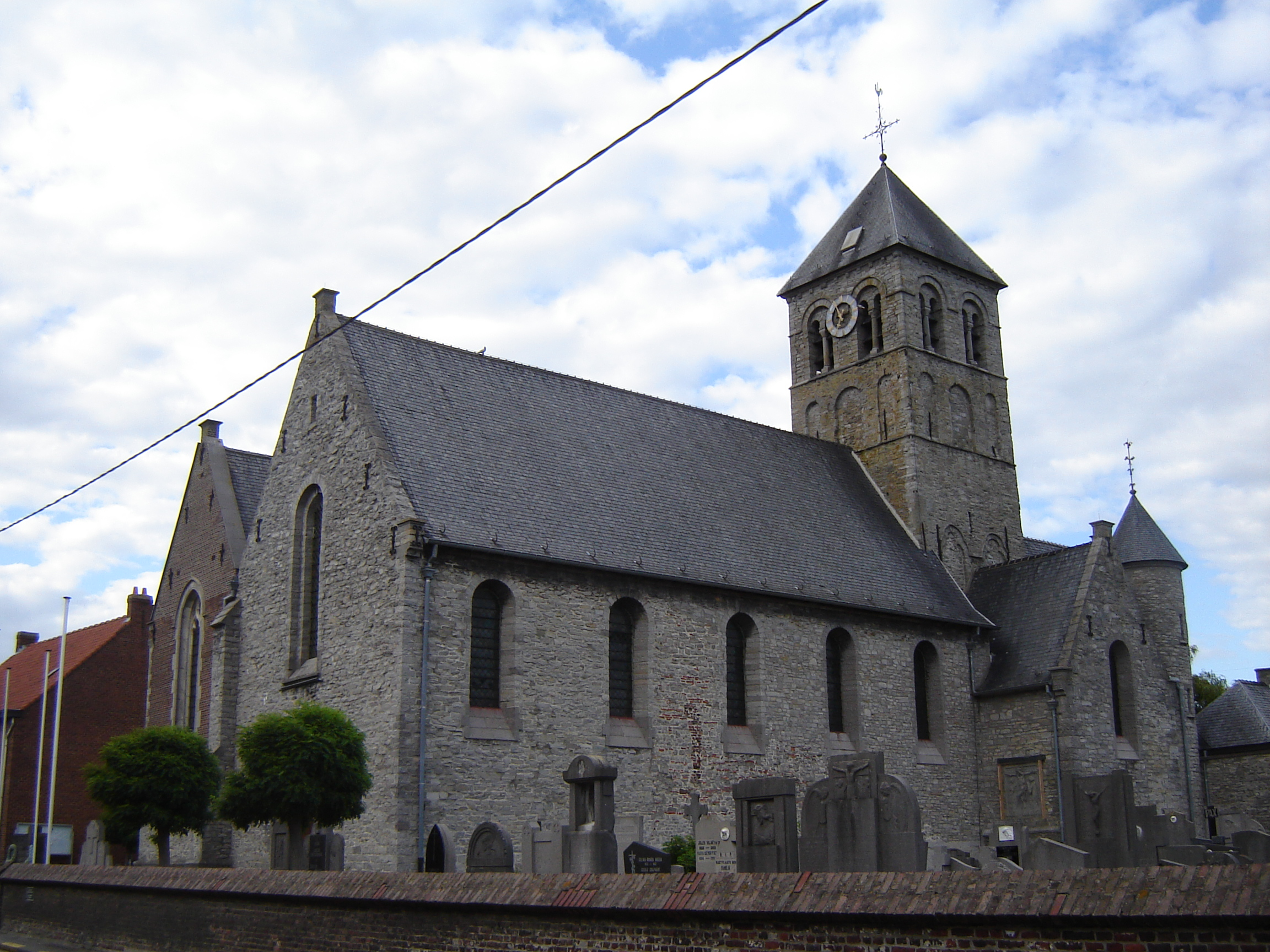 Church of the Birth of Mary and Saint Eligius, in Waarmaarde, Avelgem, West Flanders, Belgium.